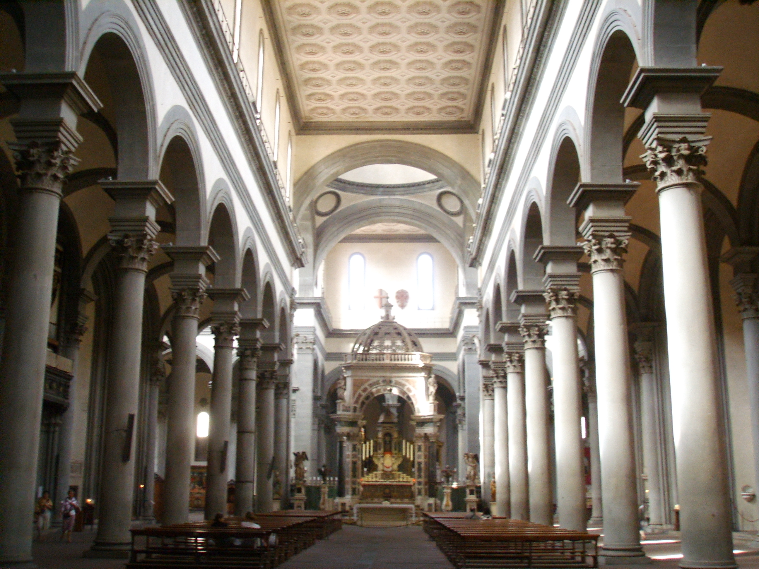 Santo Spirito church, inside view, in Florence Italy